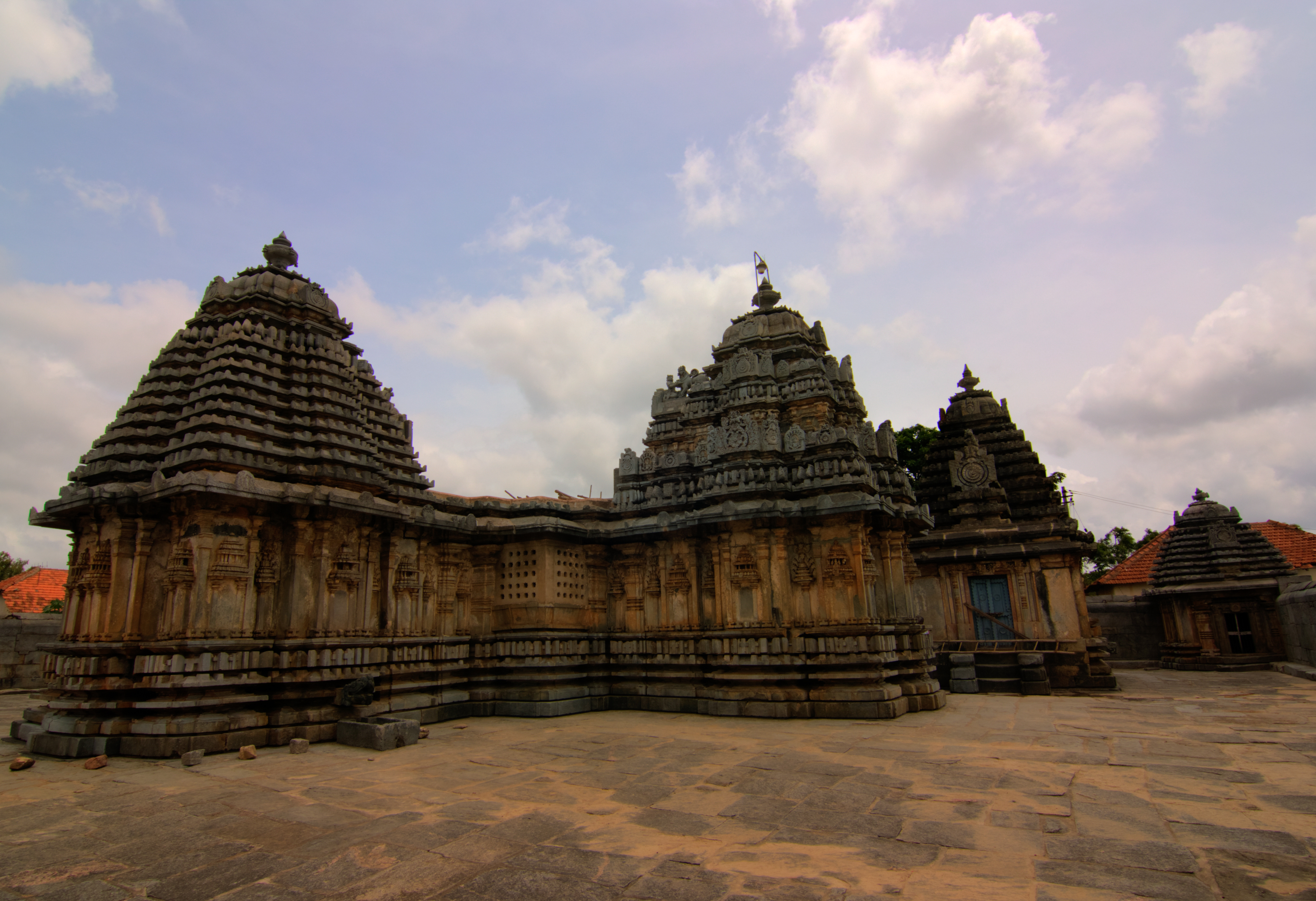 Lakshmi Devi Temple